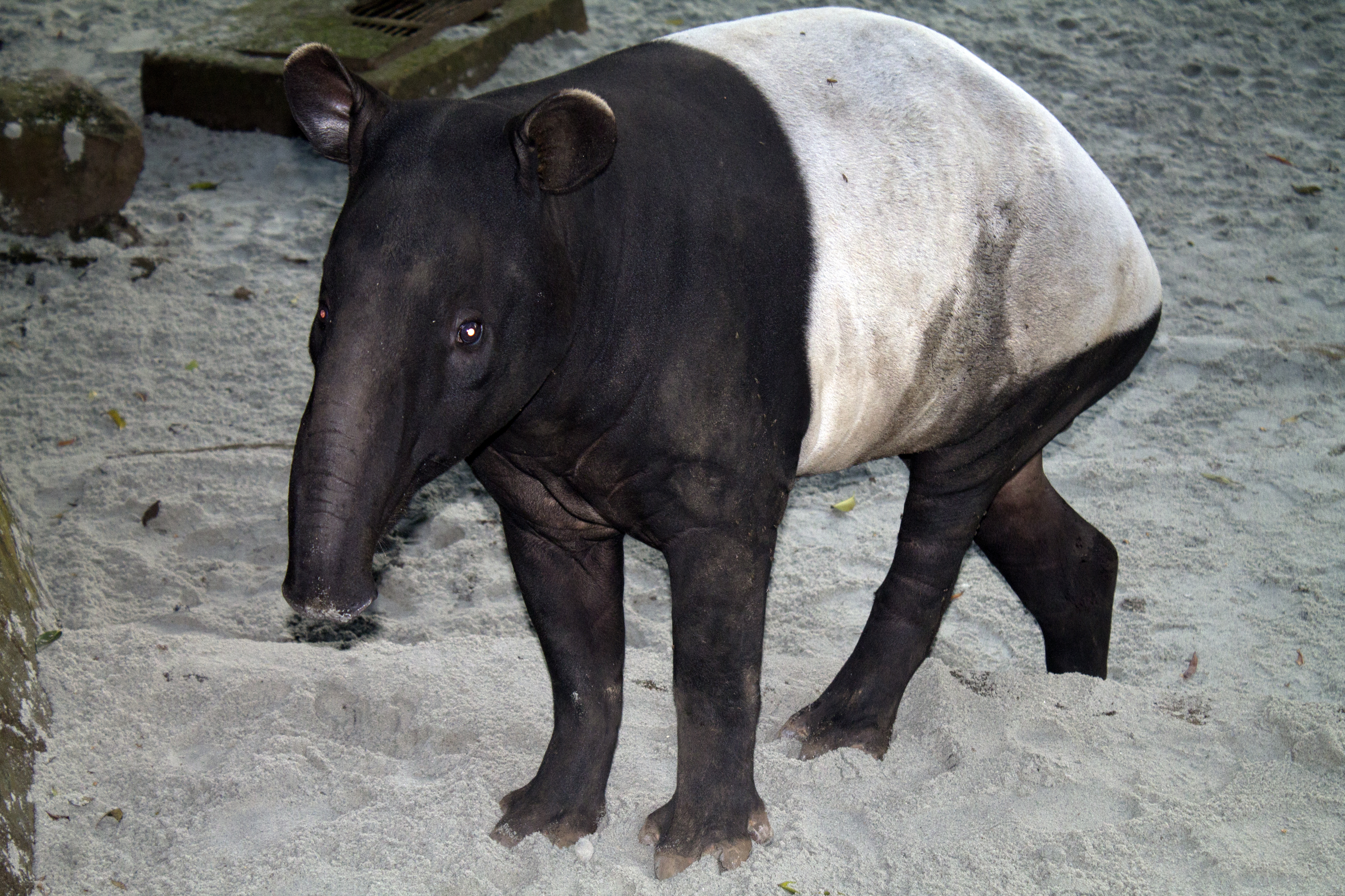 Malayan tapir (Tapirus indicus) in Bandung Zoo, West Java, Indonesia